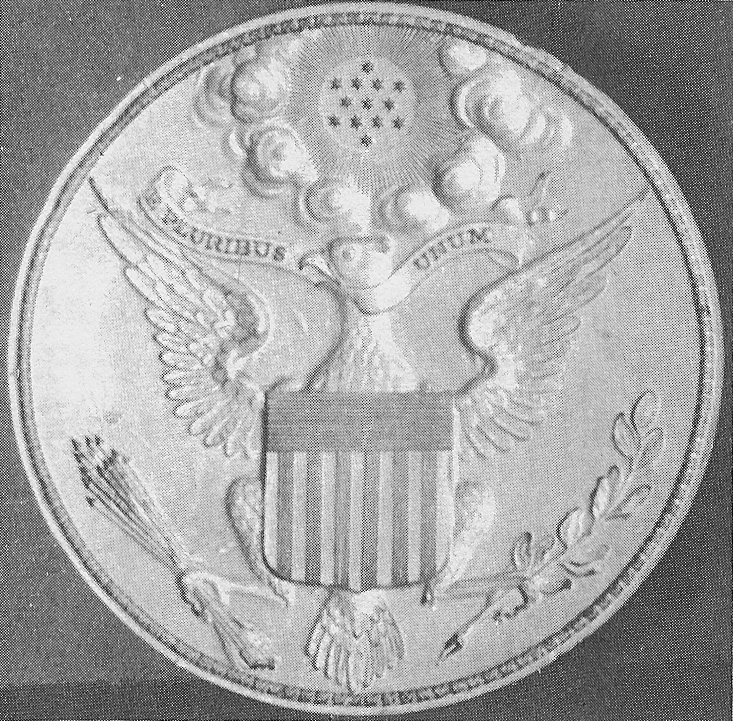 A die of unknown origin and use, nearly identical to the original 1782 Great Seal of the United States but with intentional differences, which was supposedly owned by George Washington. It turned up in 1894 and is now preserved at Mount Vernon. This photograph is reversed, to indicate what an impression would look like.